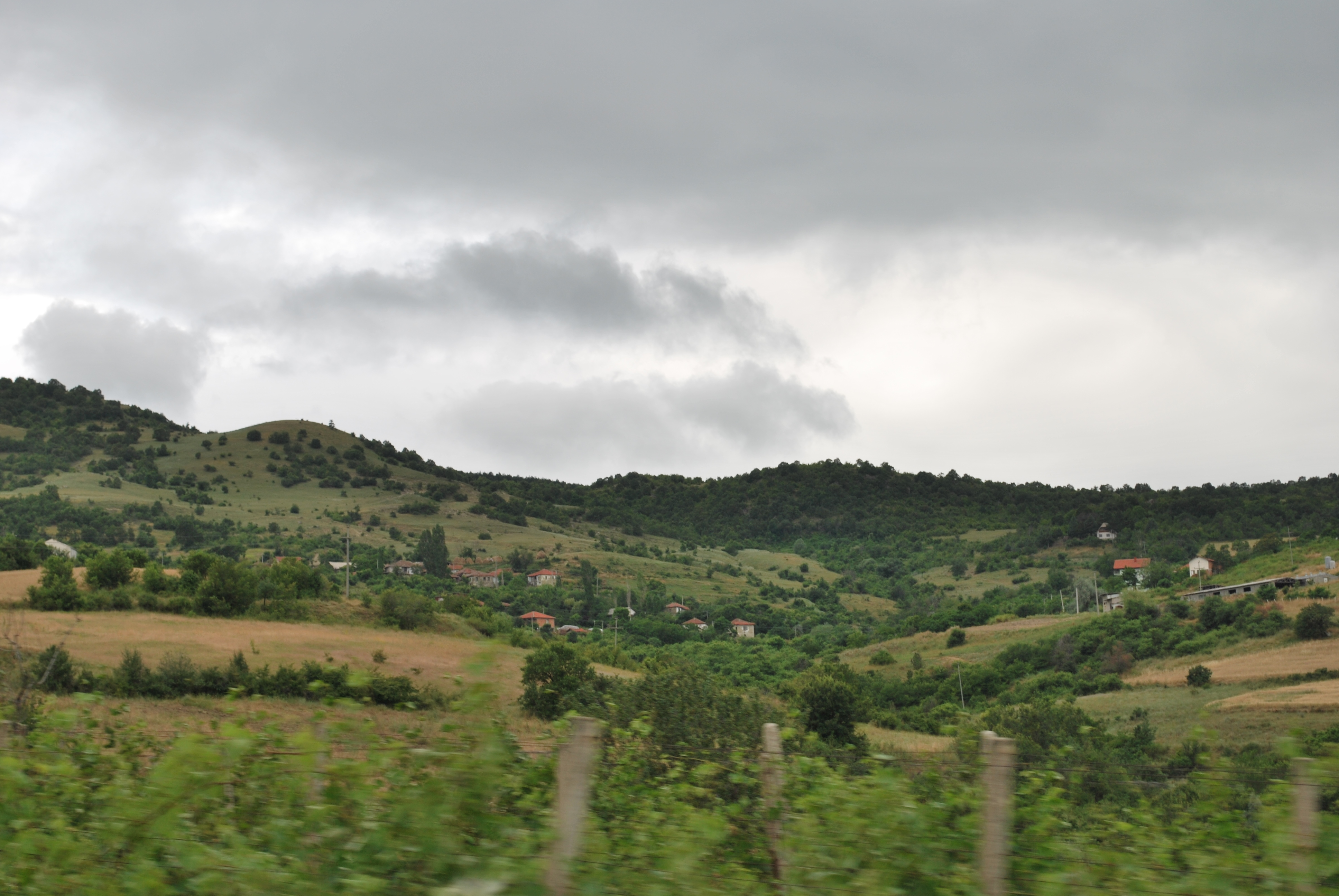 View of Sopot, Sveti Nikole, Macedonia